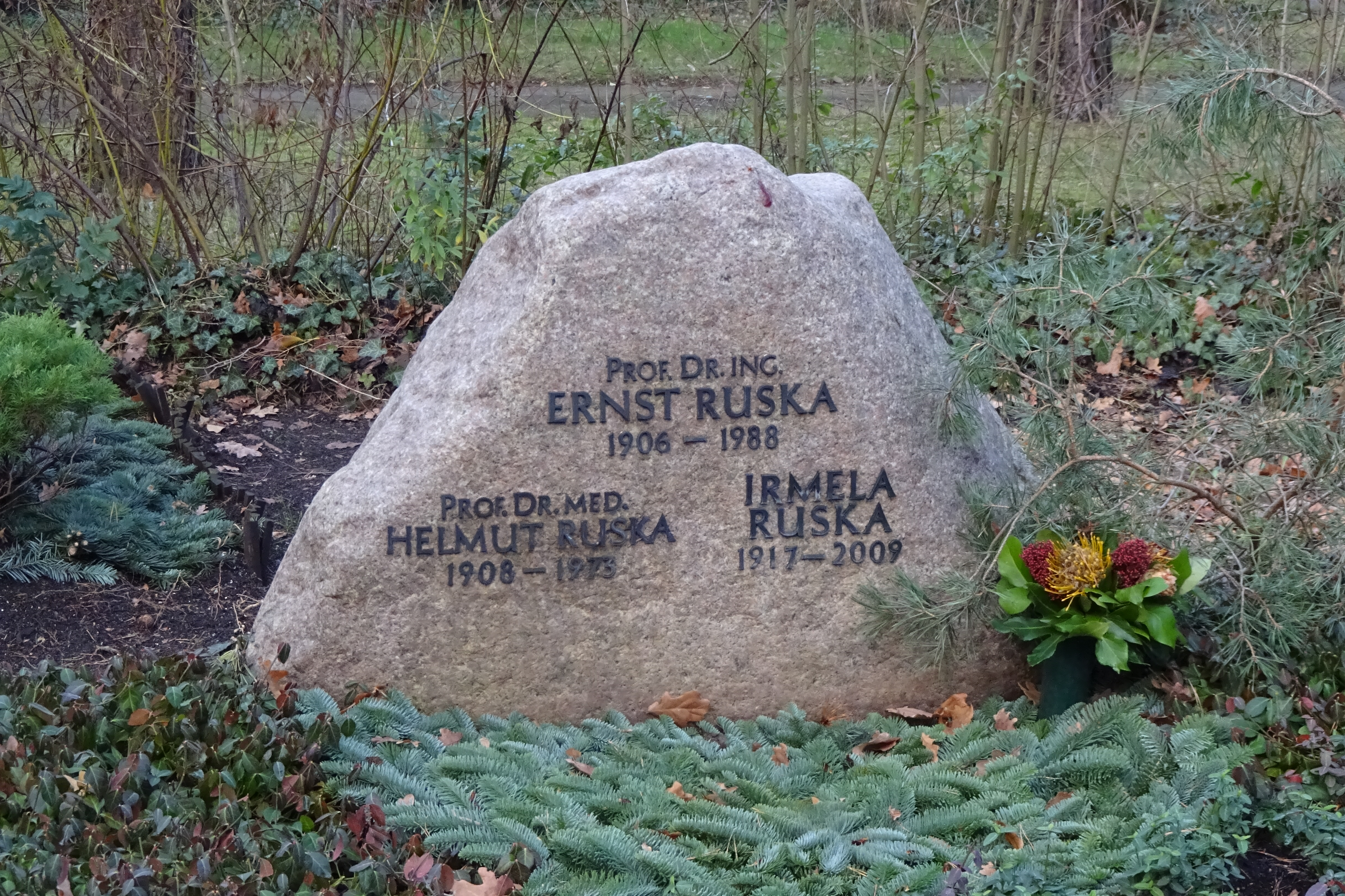 Grave of Ernst Ruska and Helmut Ruska in Waldfriedhof Zehlendorf in Berlin